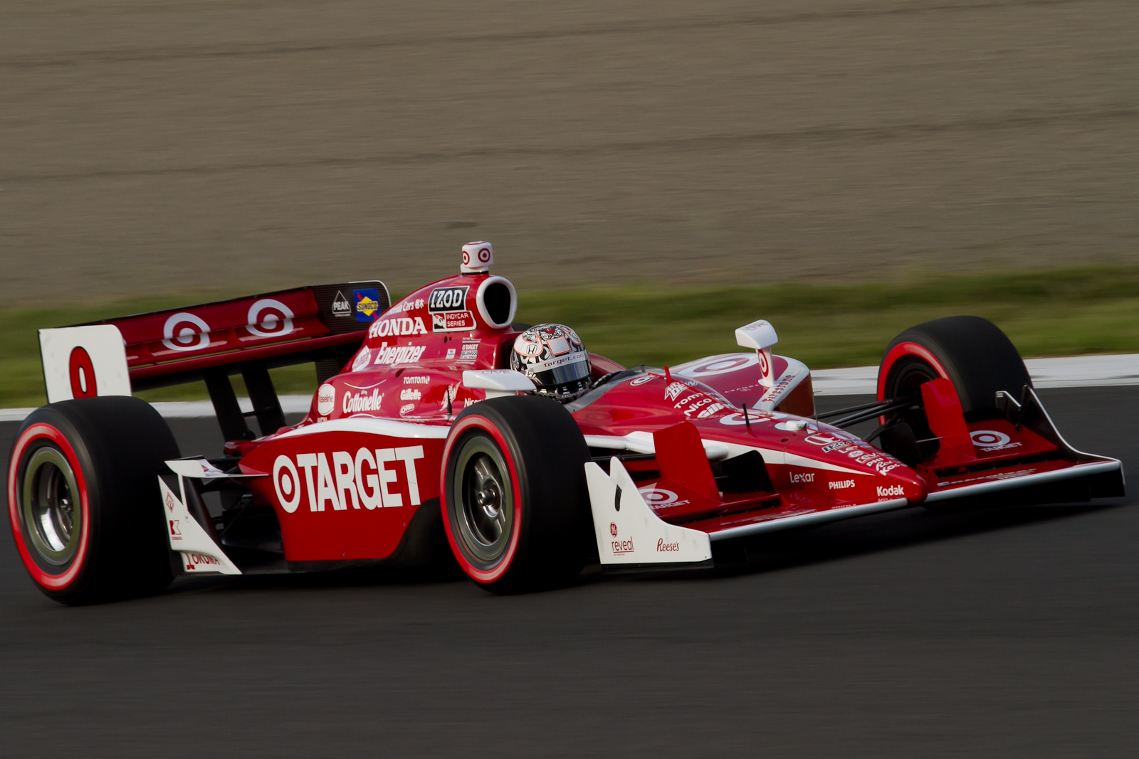 IndyCar Series 2011 Rd.15 Indy Japan 300: Scott Dixon (Chip Ganassi)